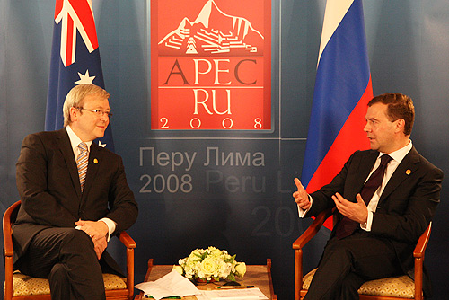 PERU, Lima. Dmitry Medvedev meeting with the Prime Minister of Australia Kevin Rudd.